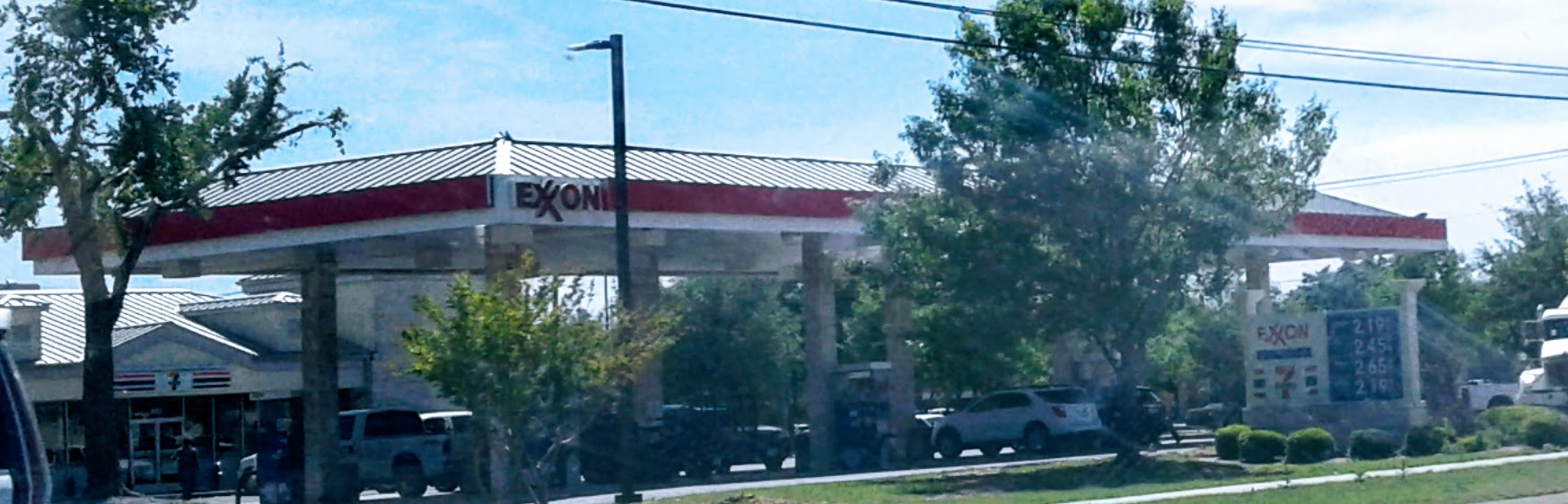 A Exxon gas station with a 7-Eleven convenience store that opened in 2001.